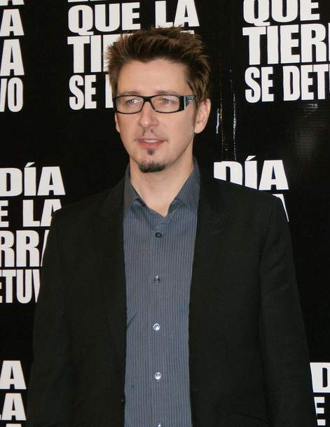 Director Scott Derricson